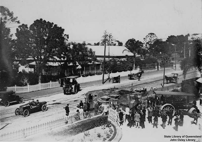 The Mephisto tank being dragged into the Queenland Museum in 1919